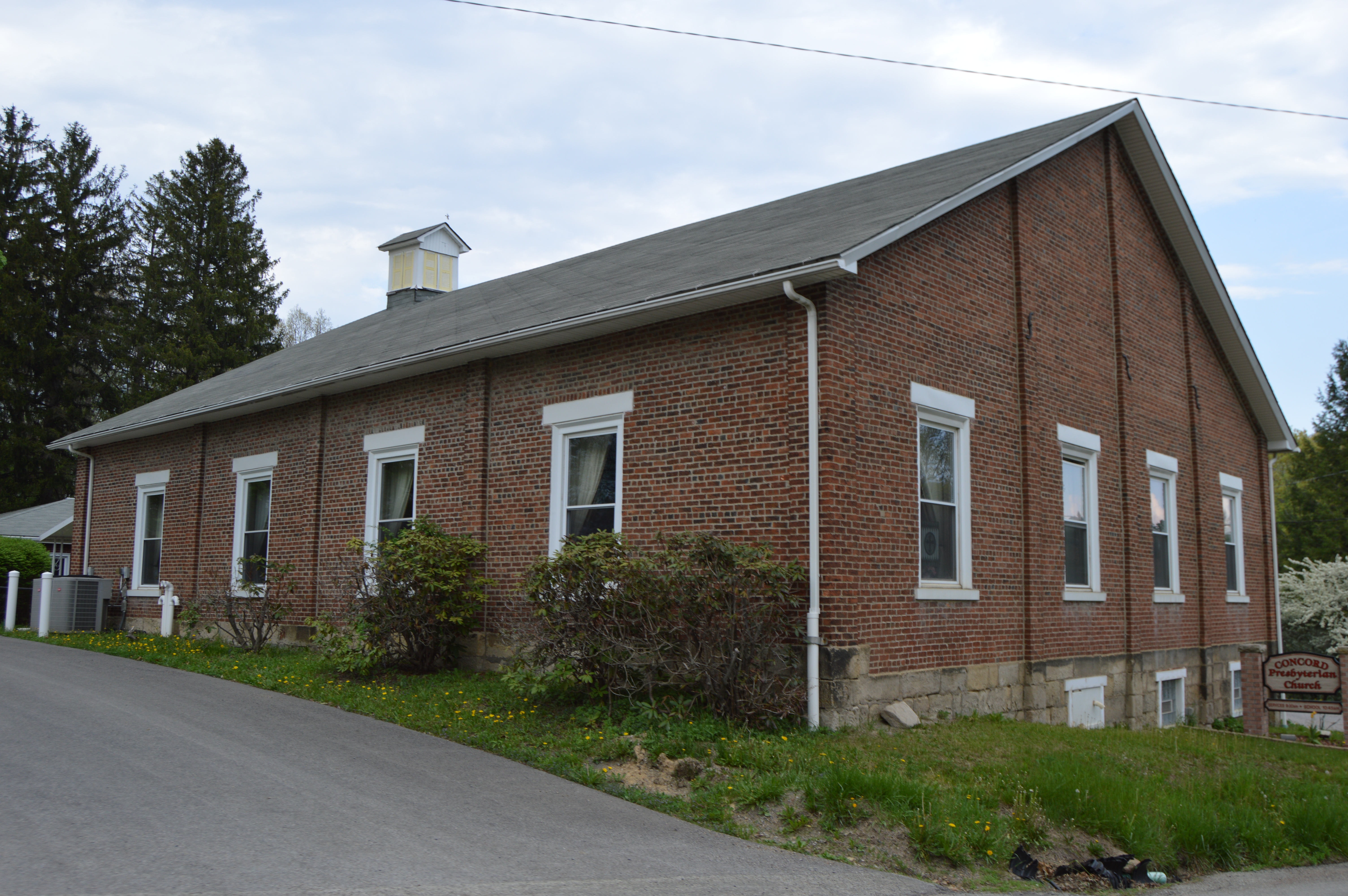 Western side and front of Concord Presbyterian Church, located at 625 Hooker Road in Concord Township, Butler County, Pennsylvania, United States.